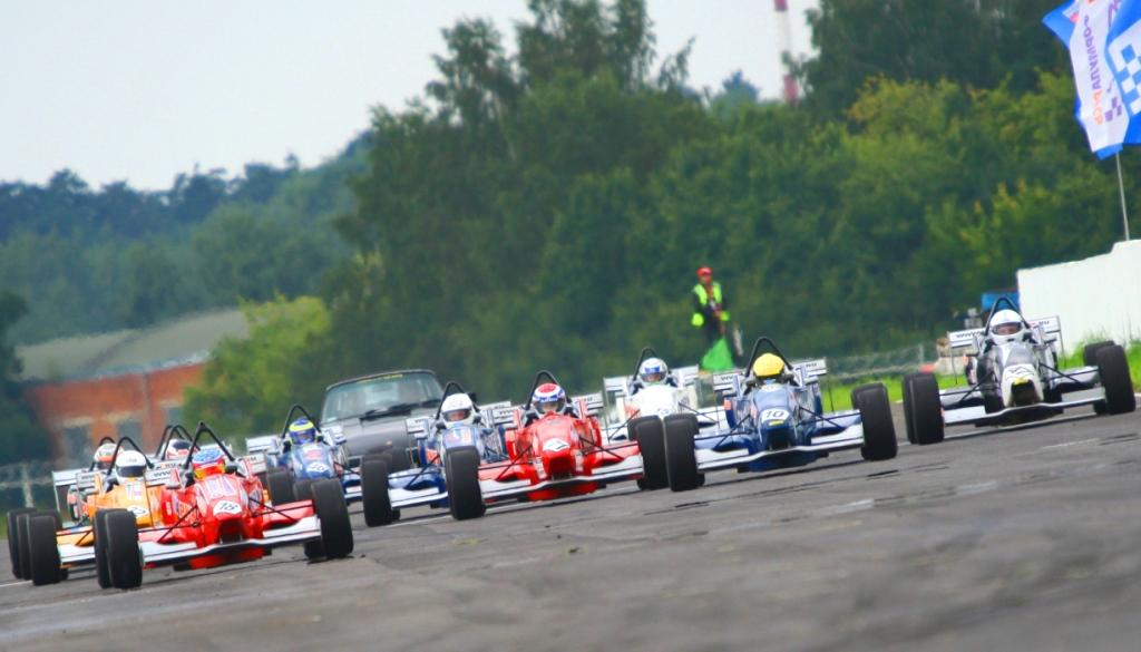 Formula RUS-START